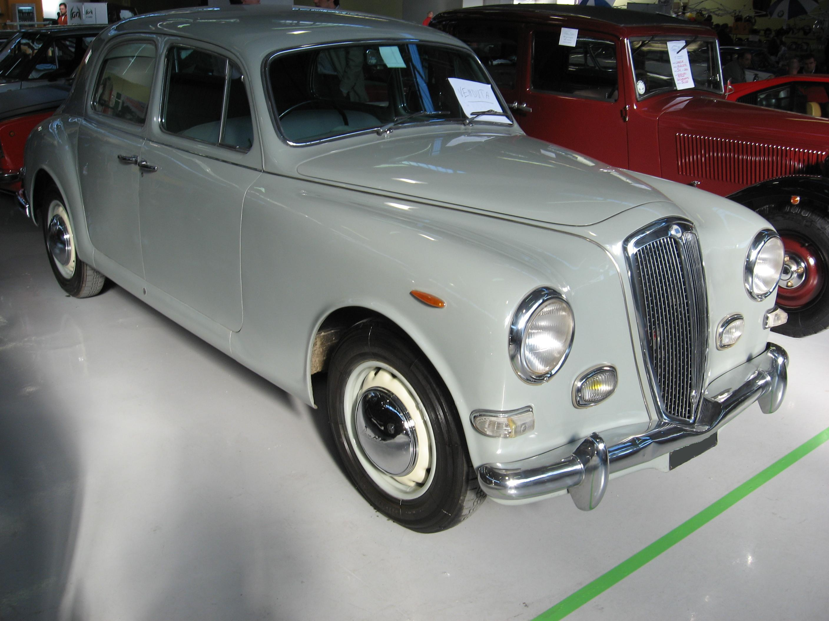 Subject: Lancia Aurelia B10 sedan Author:Luc106 Date:18 march 2007 City/Country: Forlì (Italy) Event: Old Time Show I release all rights in the public domain.